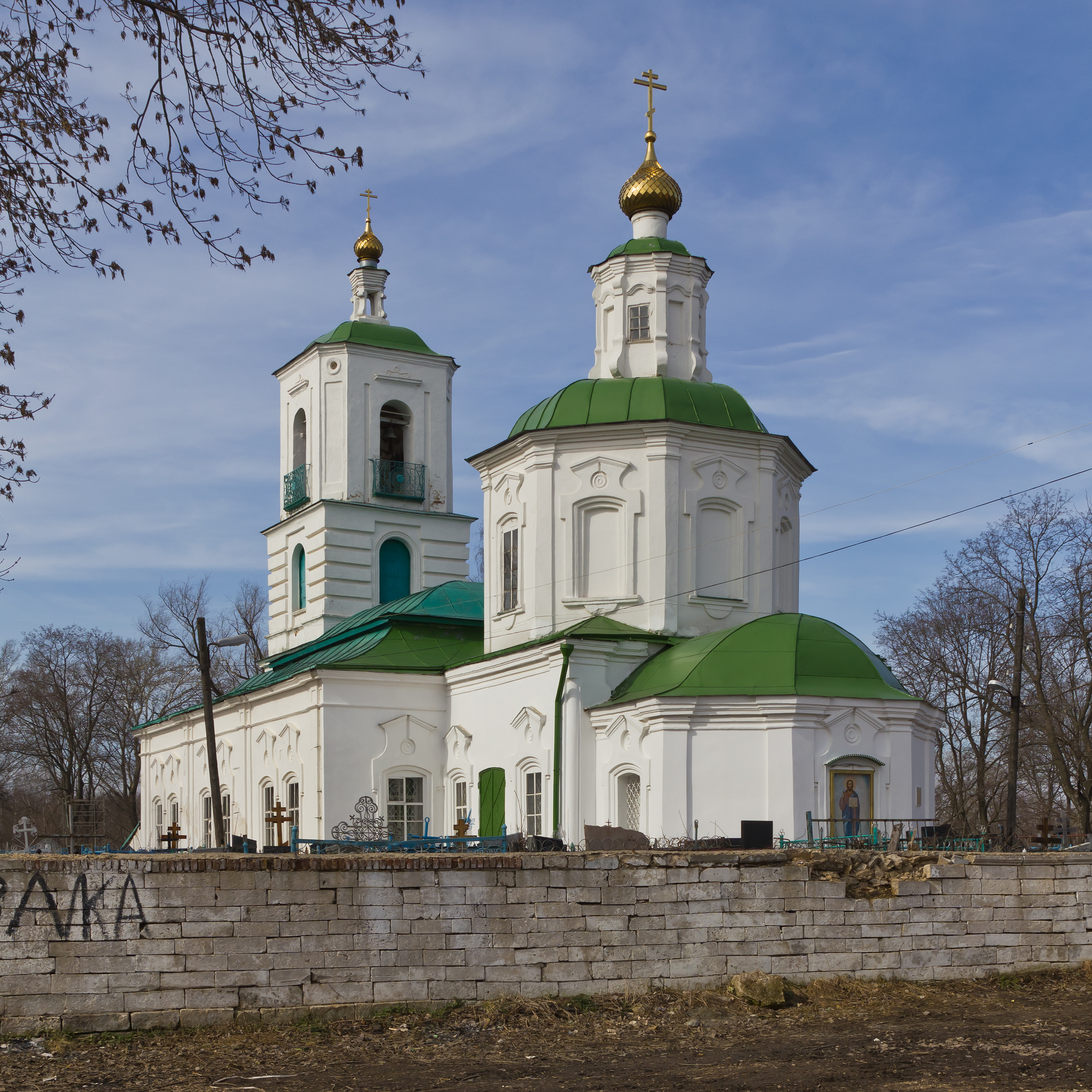 St. John the Baptist Church in Venyov, Tula Oblast, Russia.